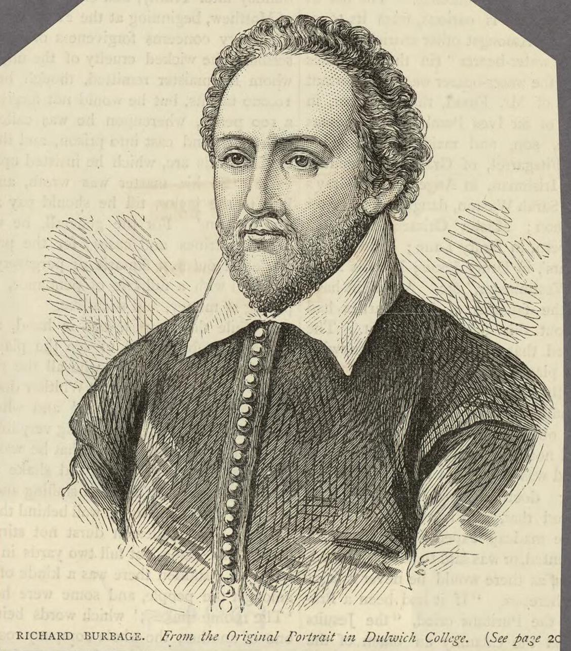 A portrait from the Welsh Portrait Collection at the National Library of Wales. Depicted person: Richard Burbage – English actor and theatre owner